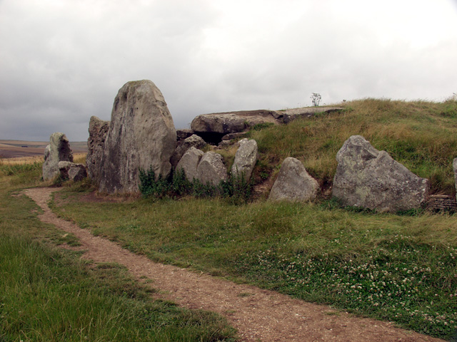 West Kennet Long Barrow. Having climbed the hill from the A4 and the Kennet, this is the view south past the entrance to the barrow.